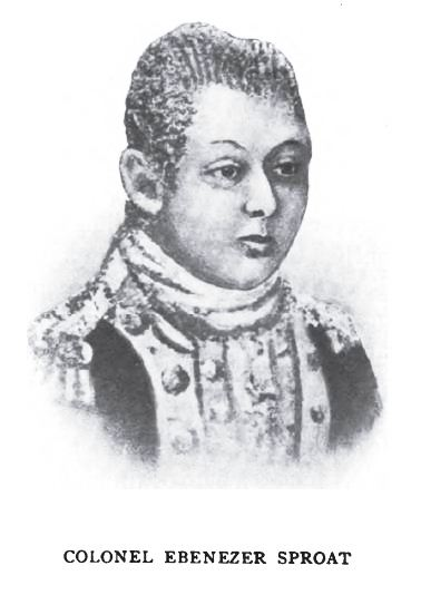 Portrait of Ebenezer Sproat, from page 323 of the book by Thomas Weston: History of the Town of Middleboro, Massachusetts, Houghton, Mifflin and Company, The Riverside Press, Cambridge, Massachusetts (1906). ColWilliam (talk) 23:18, 27 July 2010 (UTC)